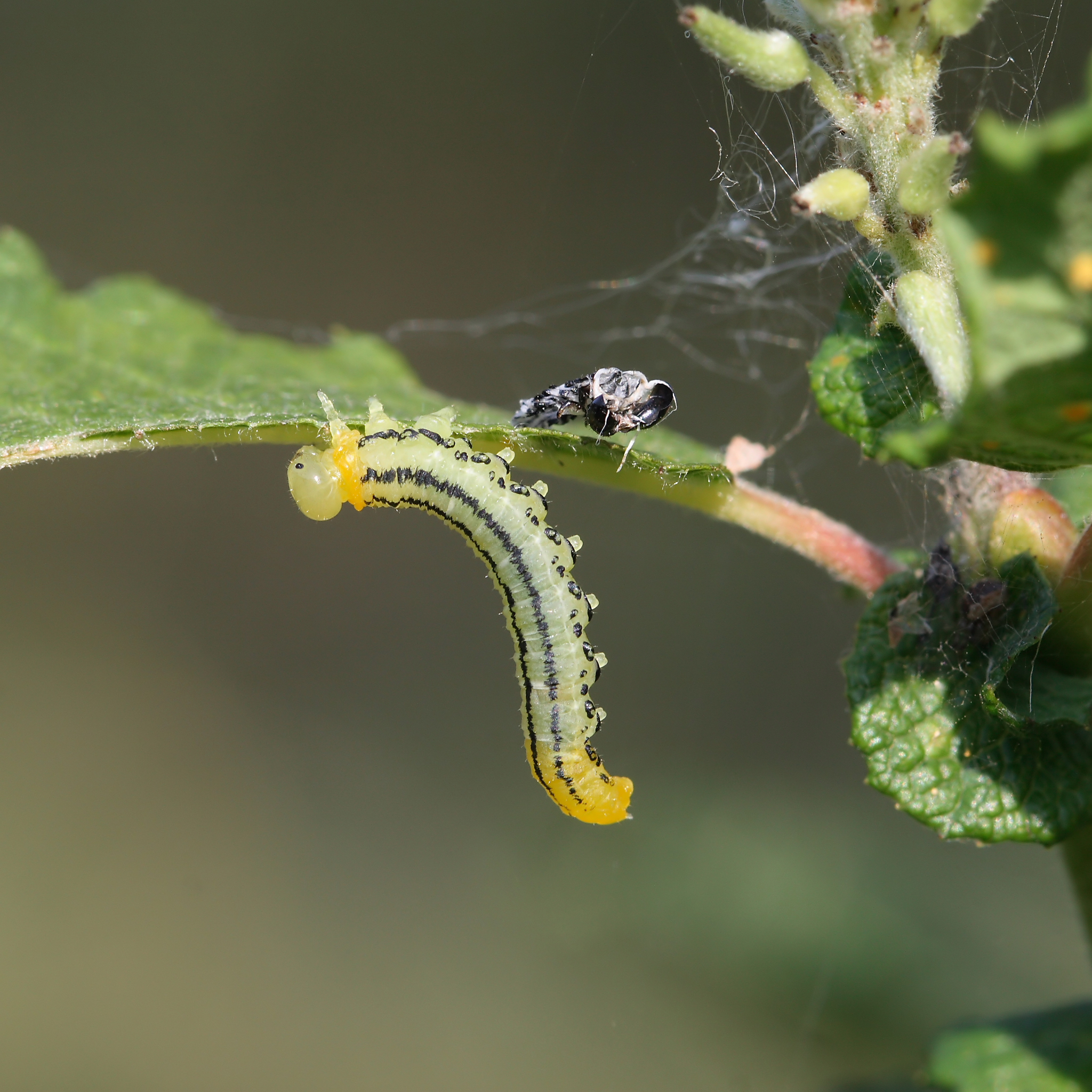 The larva of a Sawfly, perhaps from the Genus Nematus on a branch of Salix aurita.